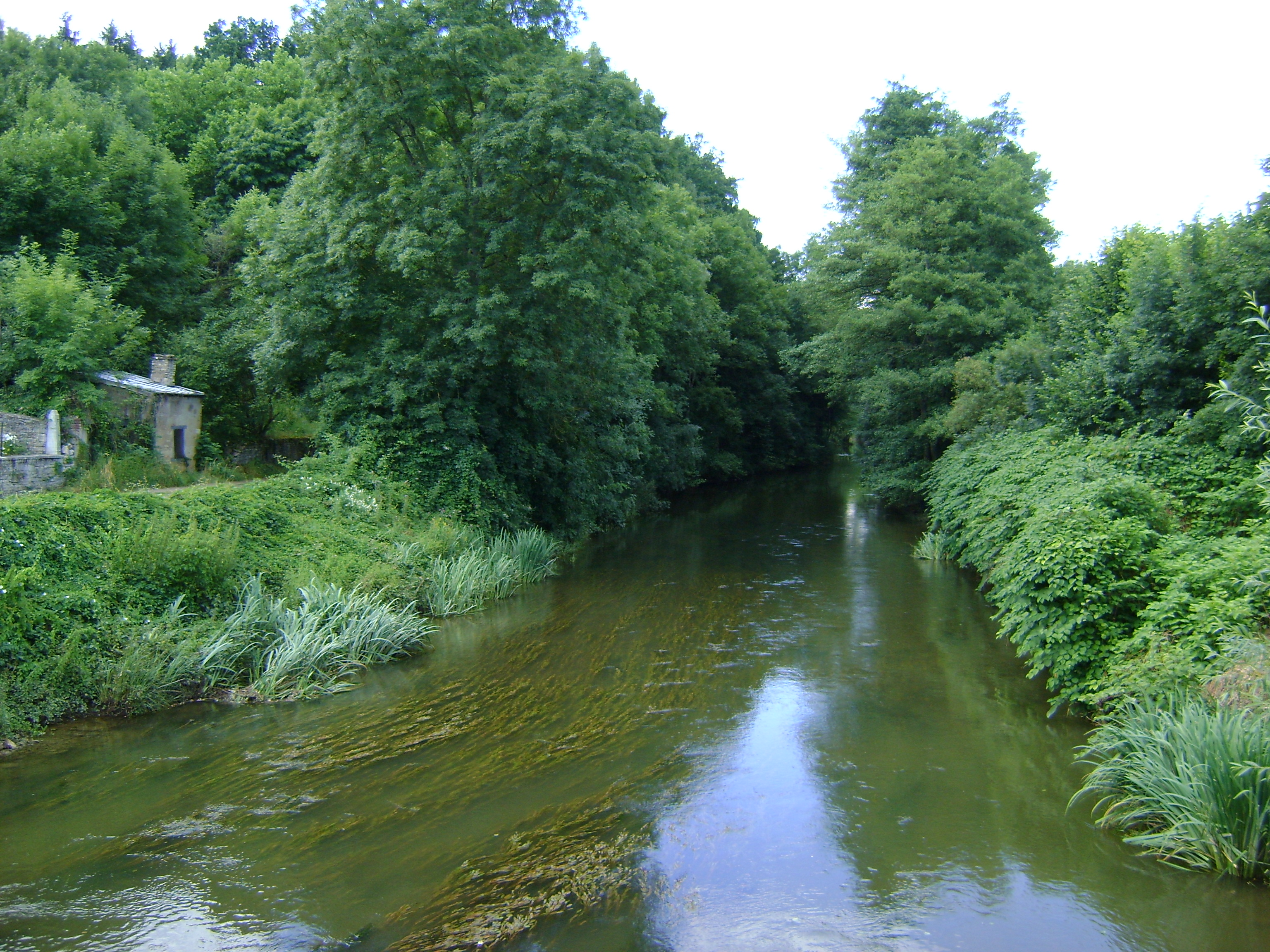 The river Serein in L'Isle-sur-Serein (Burgundy, France).